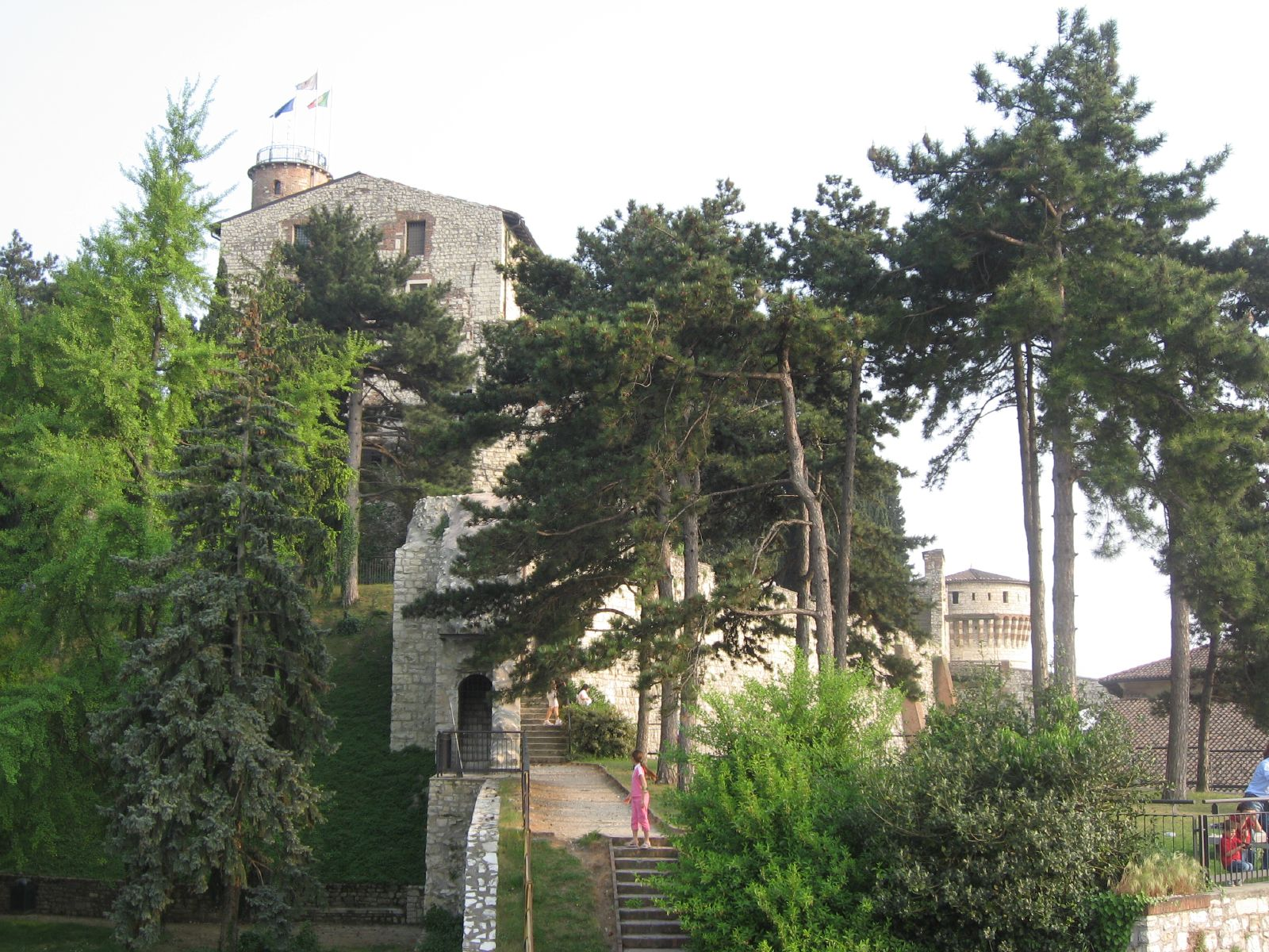 Brescia Castle Park